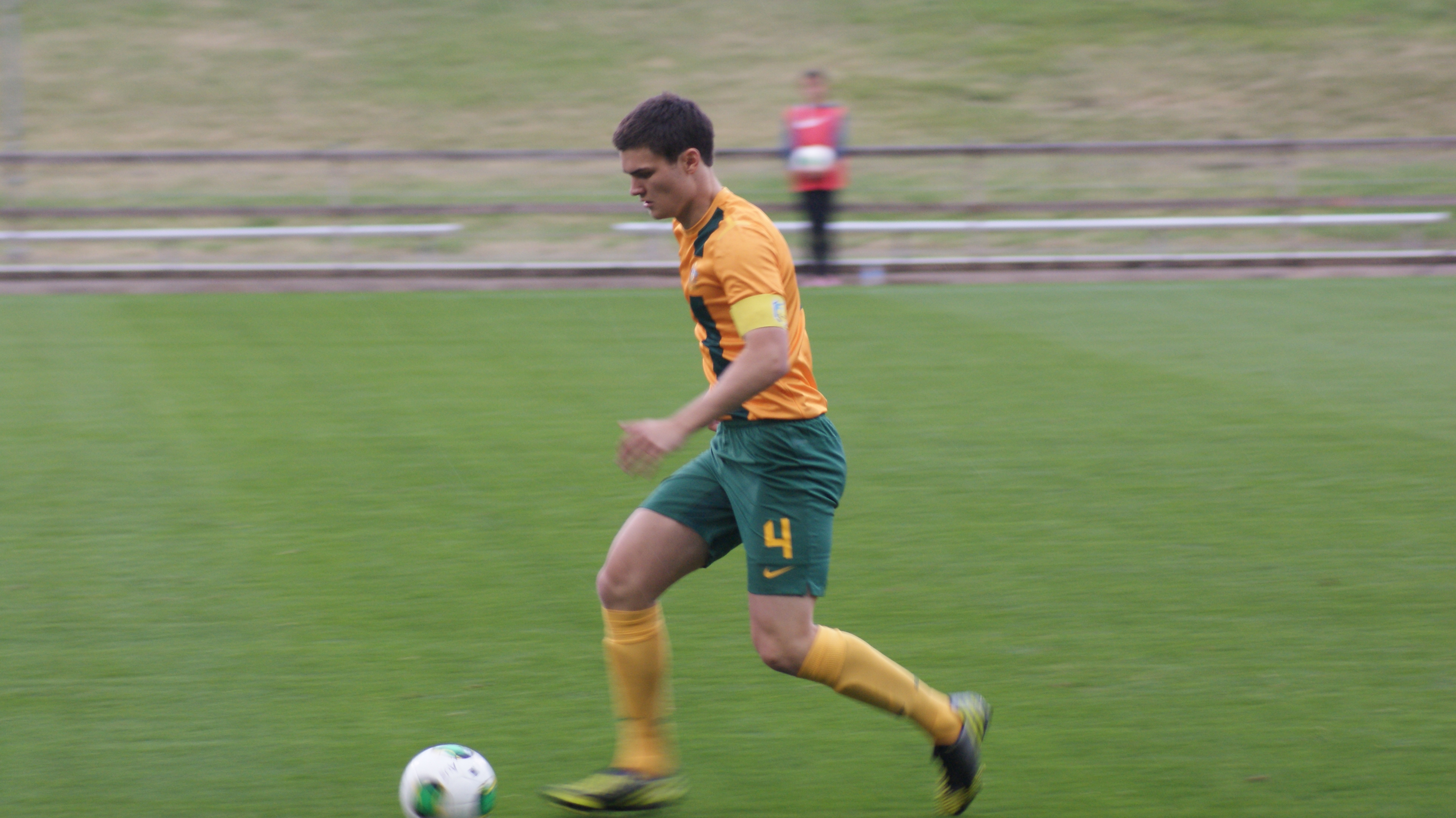 Young Socceroos vs New Zealand